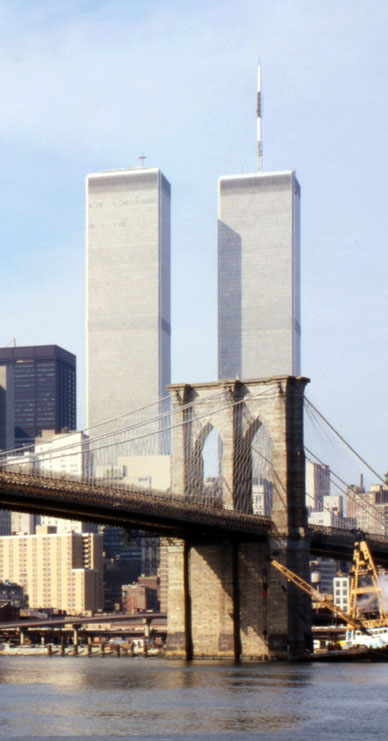 Brooklyn Bridge, Spanning East River between Brooklyn & Manhattan, New York City, New York County, NY Library of Congress information: TITLE: Brooklyn Bridge, Spanning East River between Brooklyn & Manhattan, New York City, New York County, NY CALL NUMBER: HAER, NY,31-NEYO,90-77 DATE: Documentation compiled after 1968. NOTE: Survey number HAER NY-18 Building/structure dates: 1869 SUBJECTS: NEW YORK--New York County--New York City suspension bridges COLLECTION: Historic American Engineering Record (Library of Congress) REPOSITORY: Library of Congress, Prints and Photograph Division, Washington, D.C. 20540 USA CARD #: NY1234